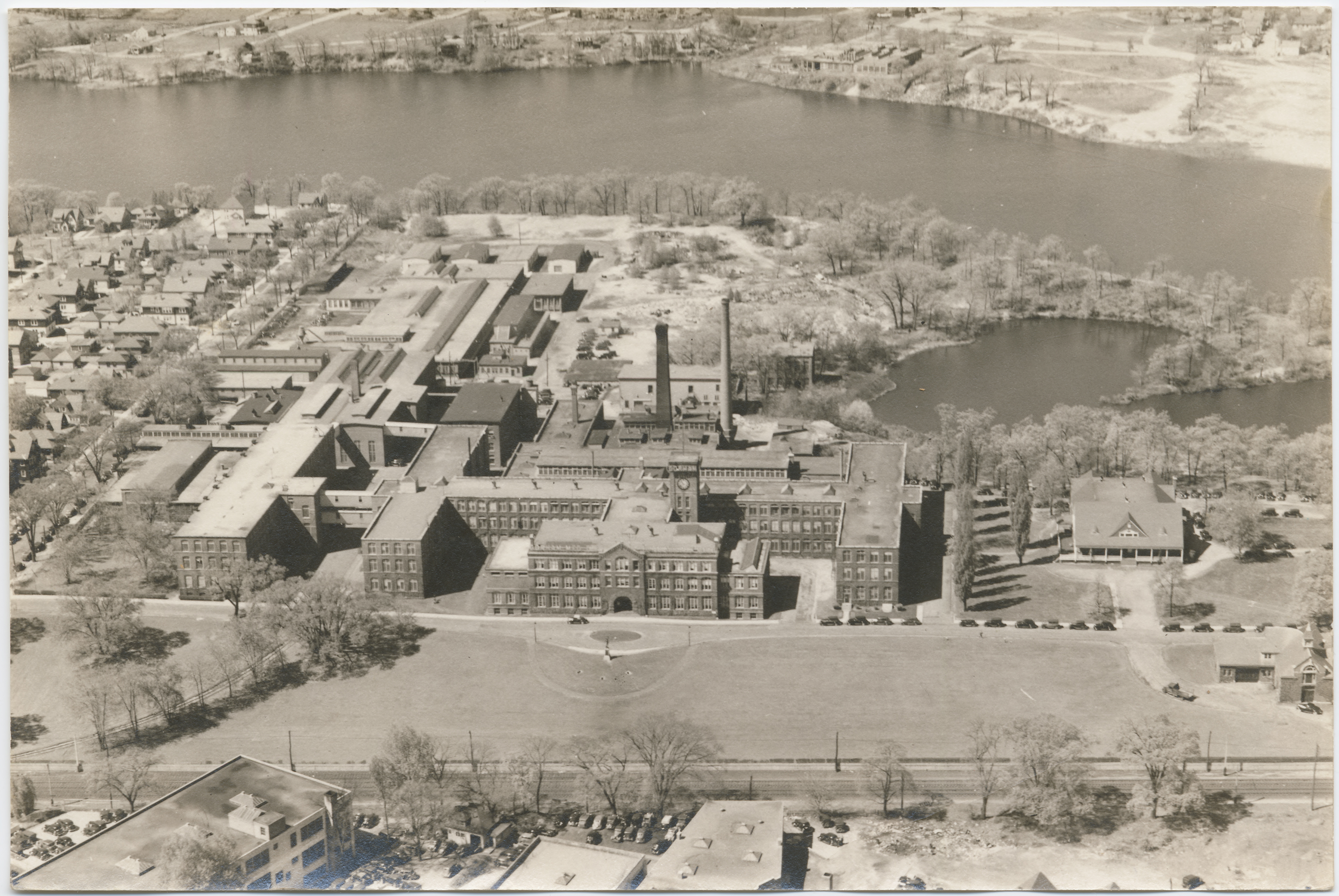 Title Aerial view of the Gorham Manufacturing facilities Series Gorham Collection Contributors Gorham Manufacturing Company (creator) Date Issued 1904 Abstract Aerial view showing the enormity of the Gorham Manufacturing Company's facilities in Providence, R.I. Notes Repository: Brown University Library Extent 1 photograph; 10.1 x 15.2 cm.